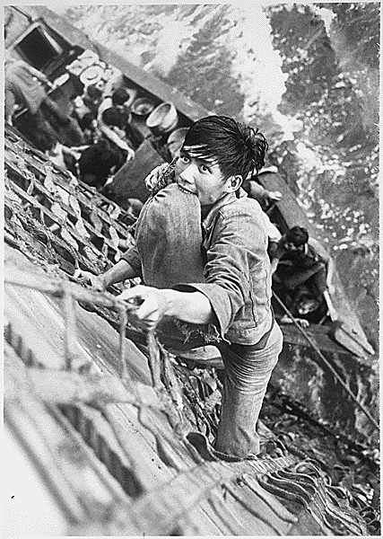 South China Sea....A Vietnamese Refugee with his belongings secured in between his teeth, climbs a cargo net to the deck of the combat store ship USS White Plains, AFS-4. The ship is picking up twenty-nine refugees from a 35 Foot wooden Boat., 07/30/1979